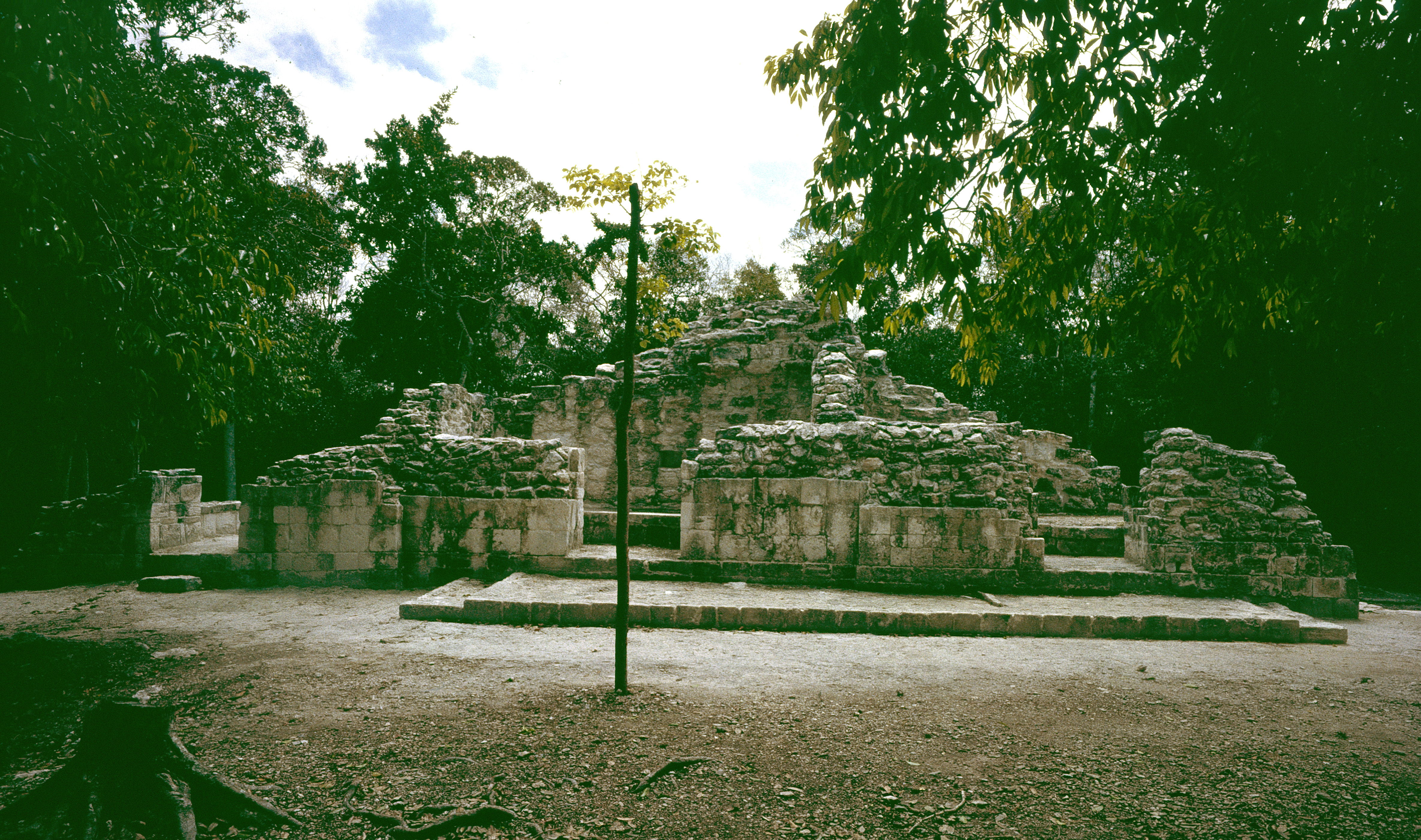 Chicanna, Campeche, Mexico: Structure XI